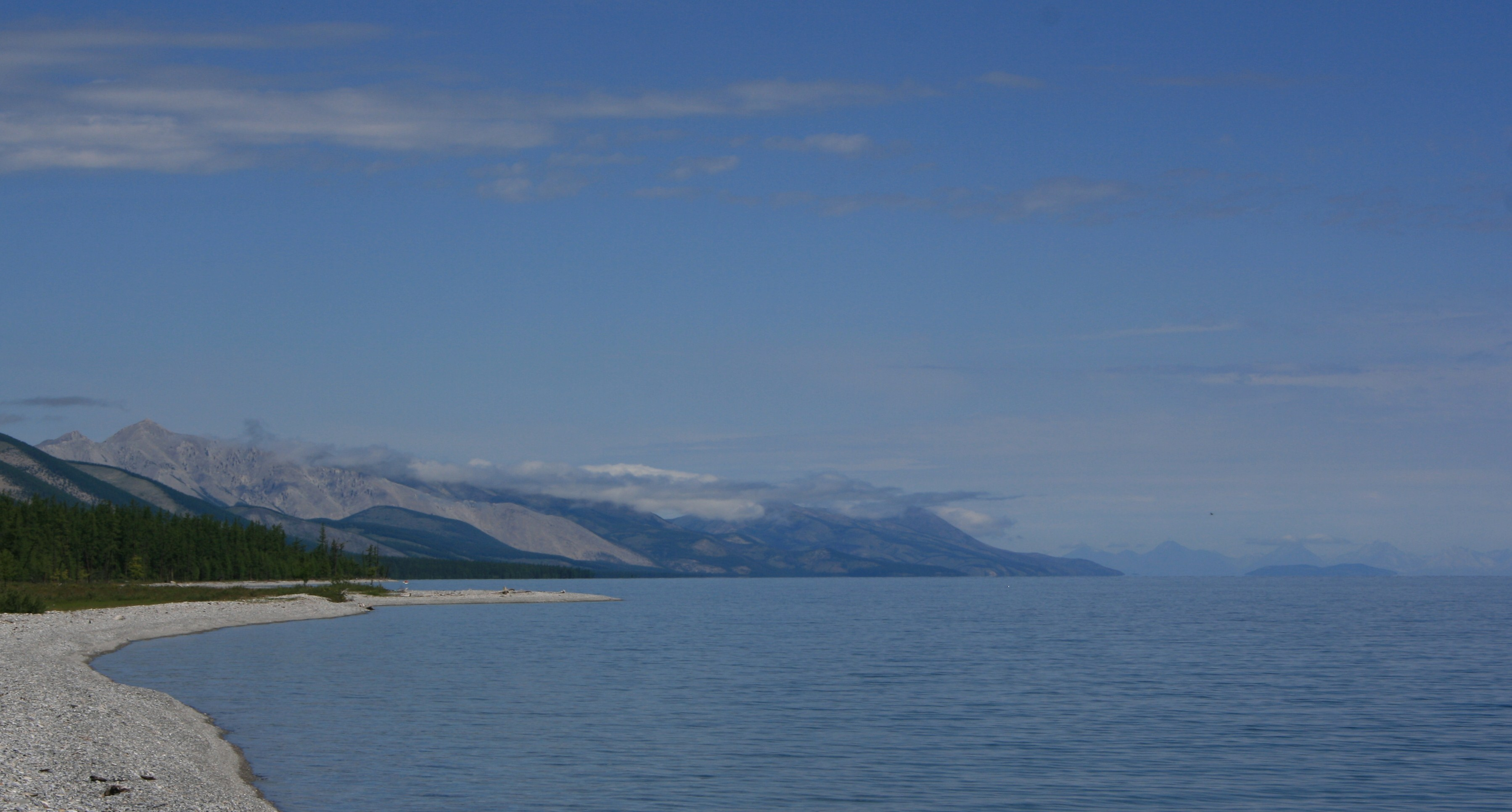 Hovsgol nuur. Picture taken some km north lake Ongolog. Direction of view is northward